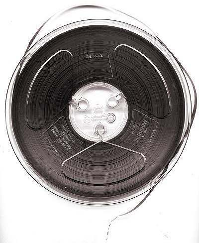 Picture of a 7 inch reel of magnetic recording tape, as used in the mid-1960s (New version) cleans up offwhite area in lower right corner (Note - 2006-10-27) This is based on an acetate backing, typical of cheap tape of the 1960s: it's brittle, light shines through the tape pack (i.e. the windings of tape) from one side of the reel to the other, and it curls (note the behavior of the slack tape).